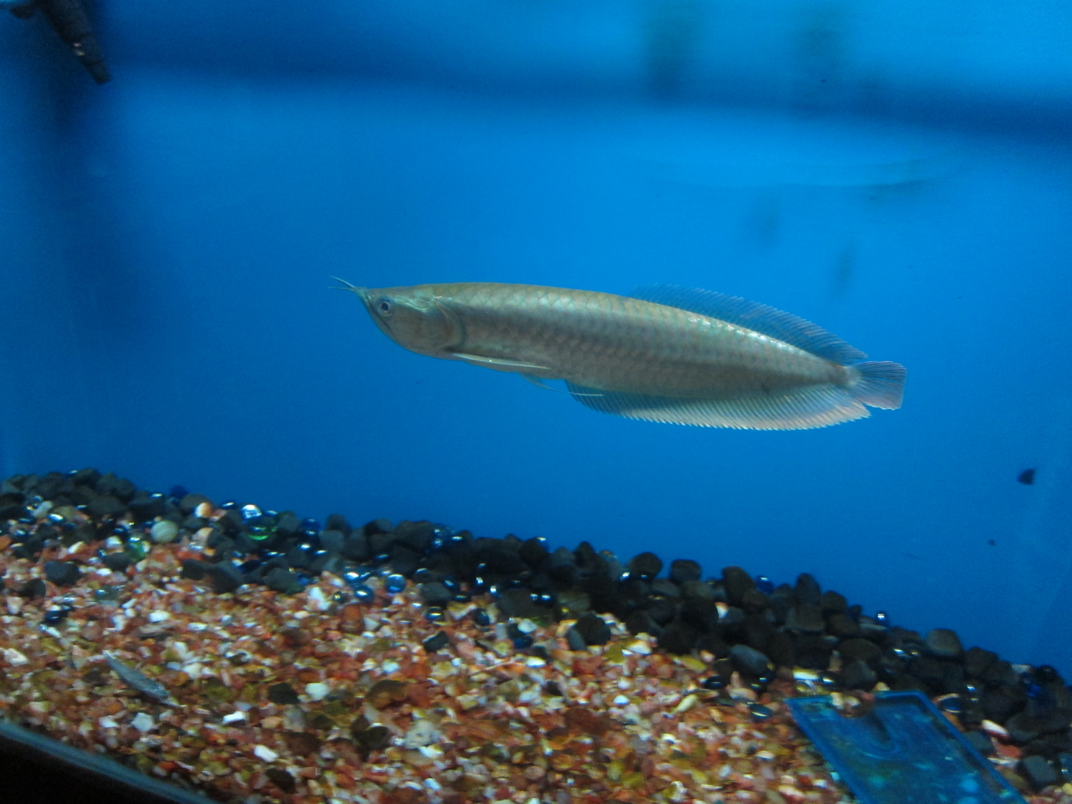 Silver Arowana - സിൽവർ അർവാന Osteoglossum bicirrhosum, sometimes spelled arawana, is a freshwater bony fish of the family Osteoglossidae, commonly kept in aquaria. സ്ക്ളീറോപേജസ് ഫോർമോസസ് എന്ന ശാസ്ത്രീയനാമമുള്ള ശുദ്ധജല മത്സ്യയിനമാണ് അരോണ. ഏഷ്യൻ ബോണിടംങ്, ഡ്രാഗൺ ഫിഷ് എന്നിങ്ങനെ വിളിപ്പേരുകളുള്ള അരോണയുടെ ഉത്ഭവം തെക്കുകിഴക്കേ ഏഷ്യയാണ്